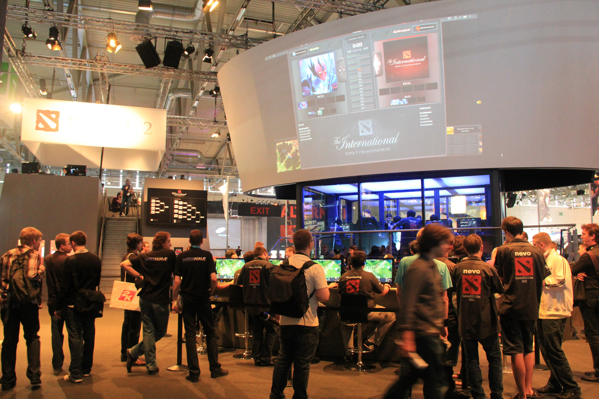 Valve hosting a Dota 2 tournament called The International at Gamescom 2011.